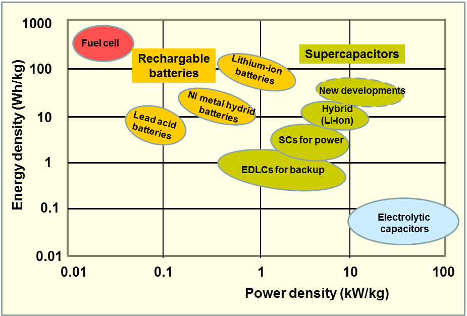 Ragone plot showing power density vs. energy density of various capacitors and batteries